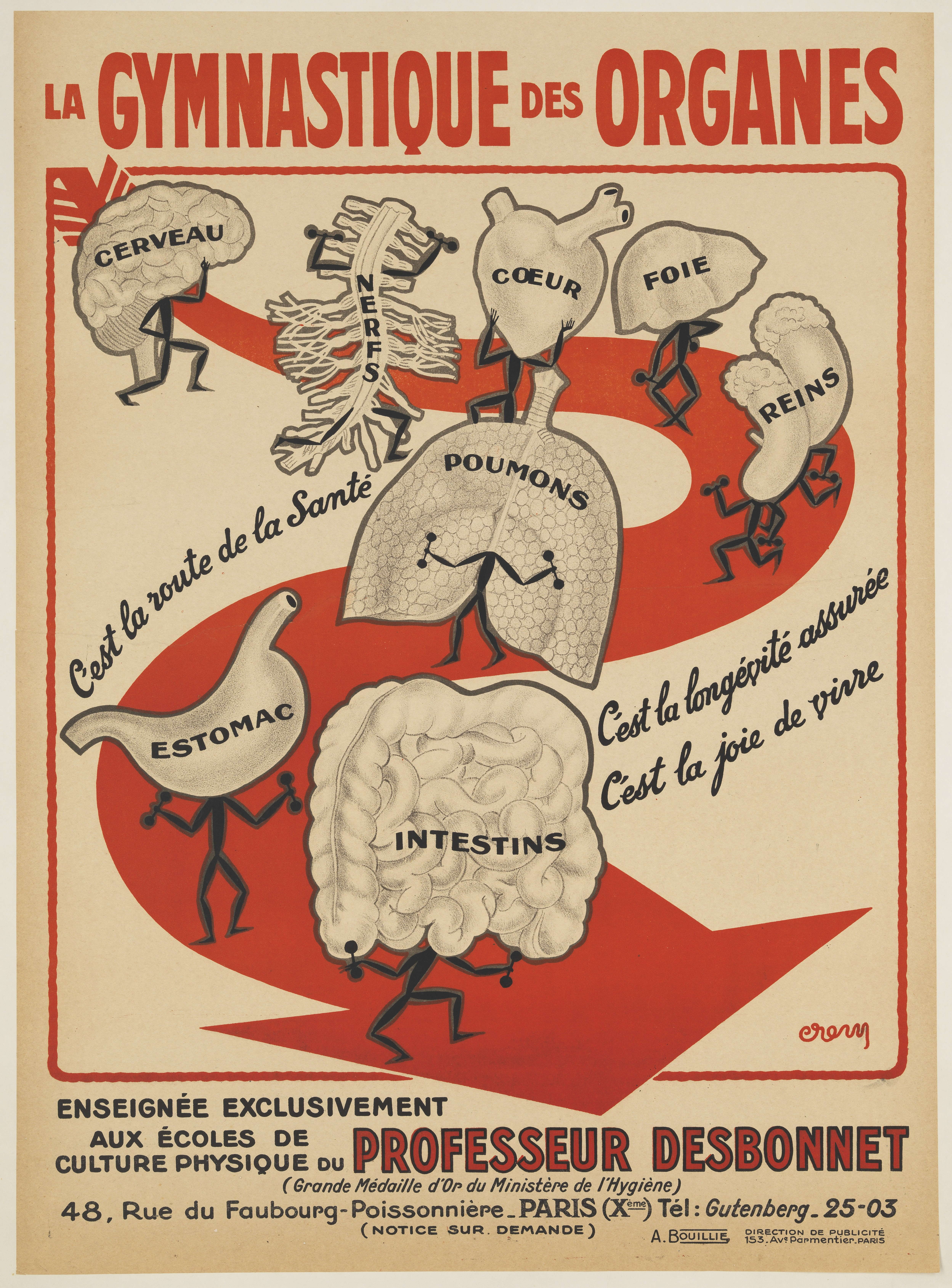 Colour lithograph: Organs of the body performing gymnastic exercises; representing courses in physical culture taught by Edmond Desbonnet. Little figures representing the organs lift dumbbells as they walk along a path labelled "C'est la route de la santé ; C'est la longévité assurée ; C'est la joie de vivre". The organs are the brain, nerves, heart, liver, kidneys, lungs, stomach, intestines Lettering: La gymnastique des organes enseignée exclusivement aux écoles de culture physique du Professeur Desbonnet (Grande médaille d'or du Ministère d'Hygiène) ... notice sur demande Credits: Edmond Desbonnet (1868-1953) opened the first of his many schools of physical culture in Lille in 1895. His publications included La Force physique, culture rationnelle, méthode Attila, méthode Sandow, méthode Desbonnet (1901) and Comment on devient athlète (1909). An exhibition of photographs of his schools was shown in Paris in 1992 (Accord à corps: Edmond Desbonnet et la culture physique, Paris: Editions Créaphis, 1992 (Collection Maison de la Villette)) Bears a designer's indistinct signature: "Remy"? Iconographic Collections Keywords: Edmond. Desbonnet